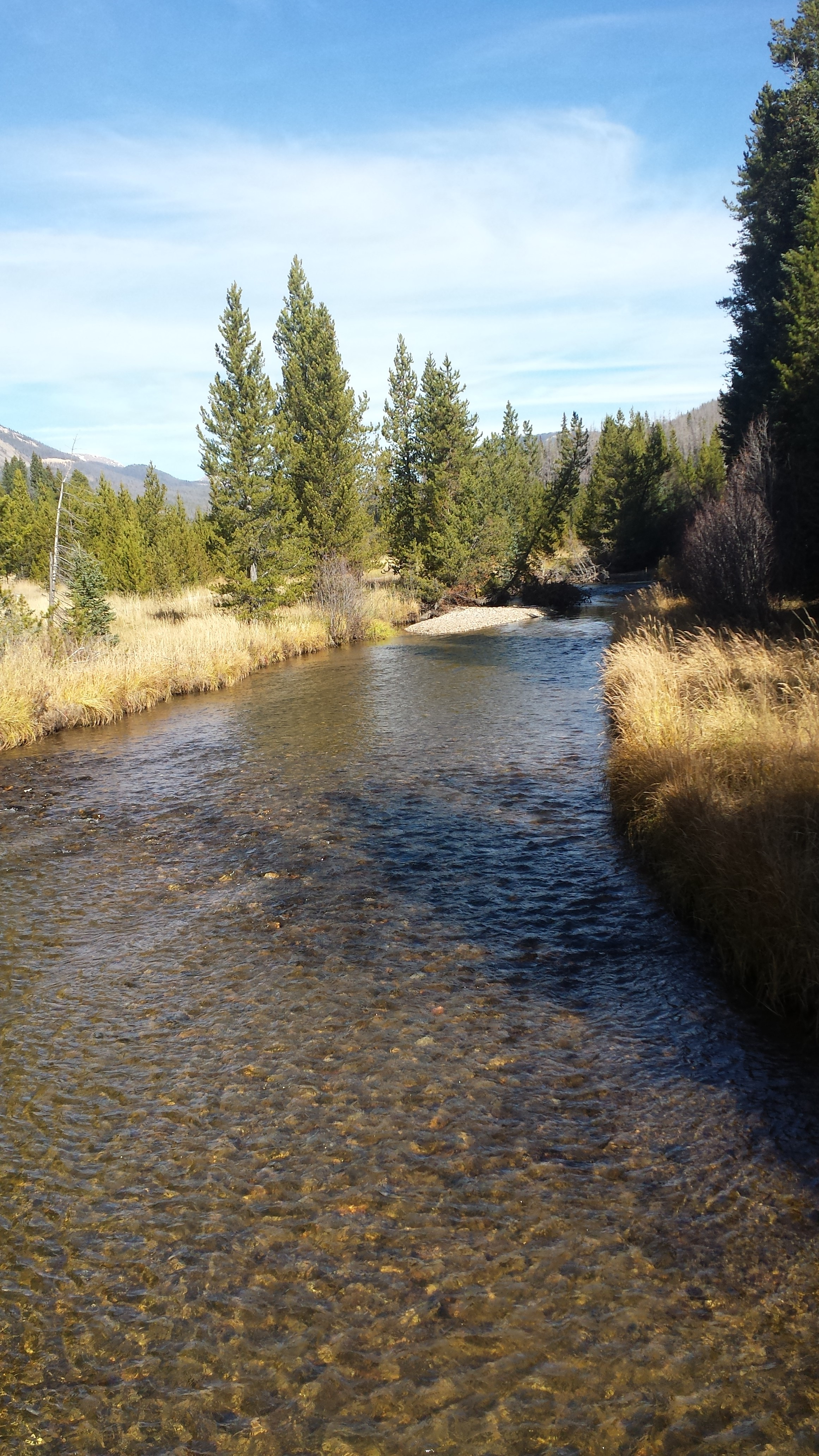 Colorado River at the Coyote Valley Trail head, Kawuneeche Valley, Rocky Mountains, Colorado, USA